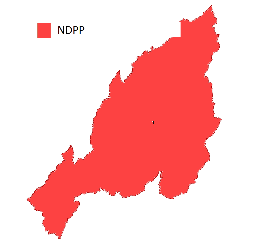 Seat Sharing of NDA in Nagaland in General Election, 2019